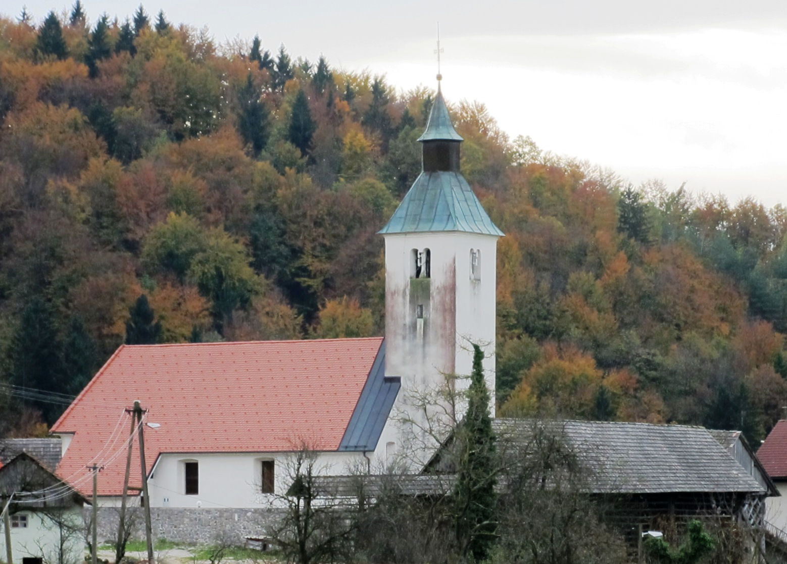 Church in the village of Troščine, Municipality of Grosuplje, Slovenia.